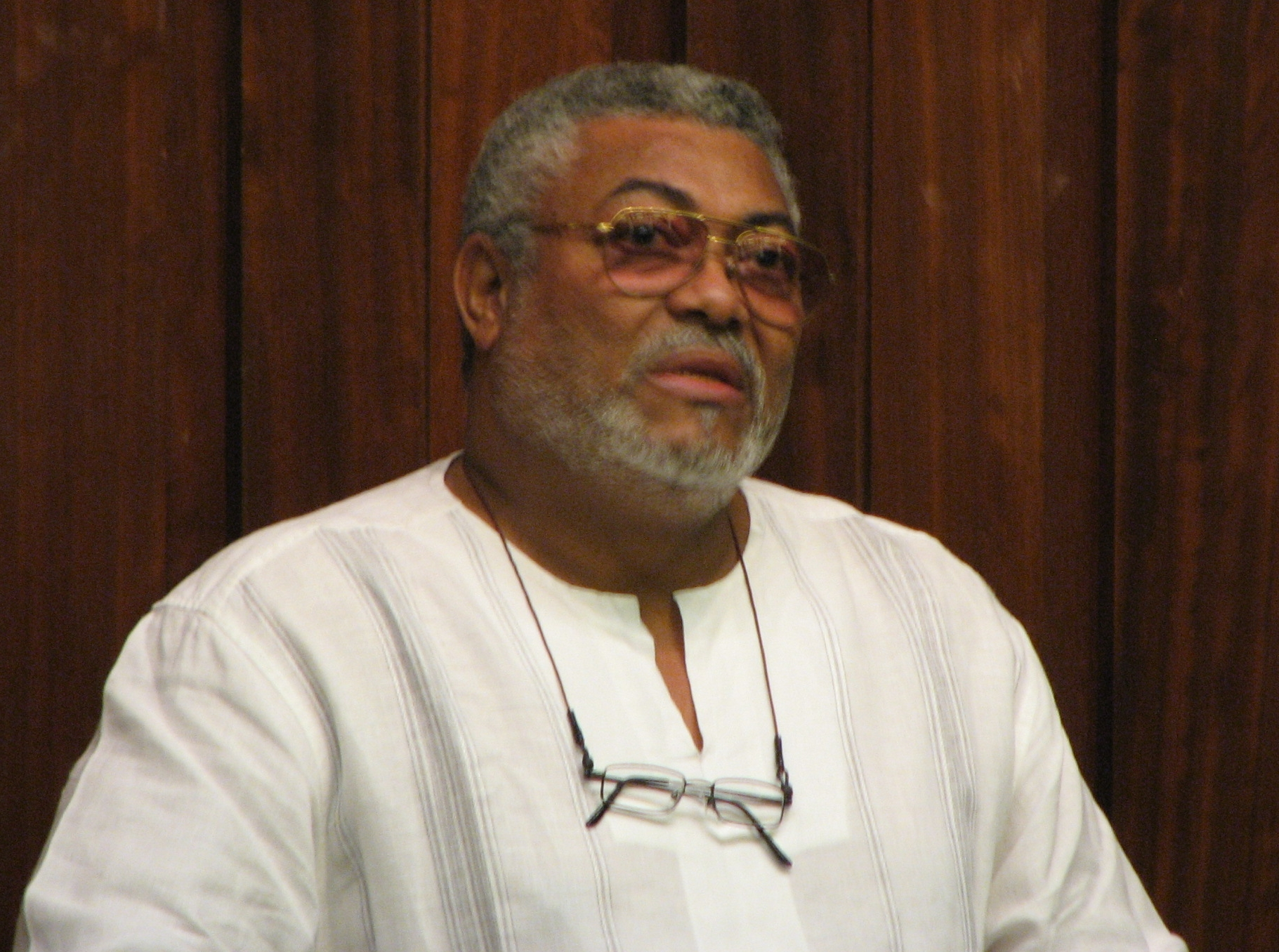 Former president of Ghana Jerry Rawlings, speaking at the Oxford Law Faculty.